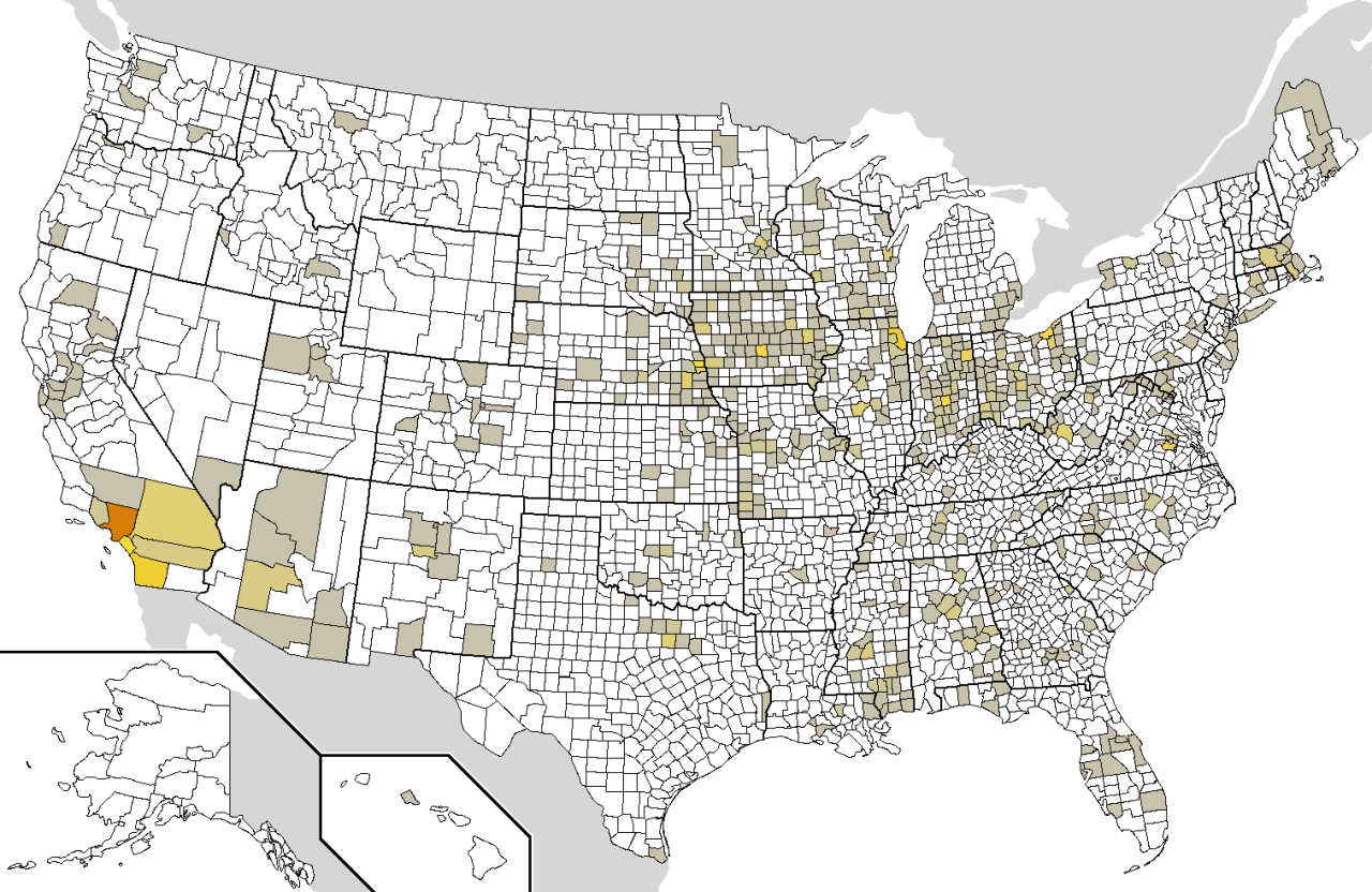 Each US County with at least one high school show choir program.